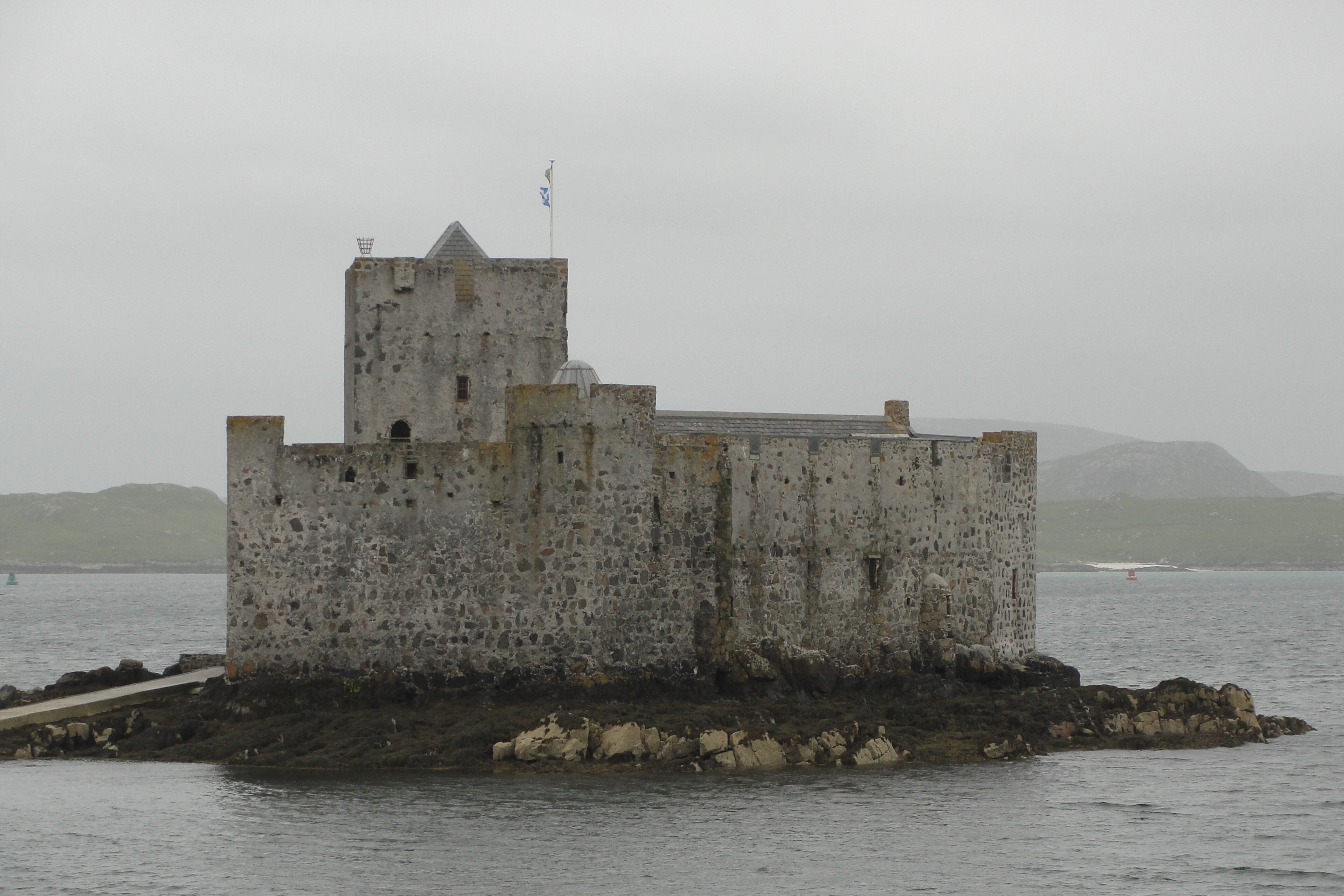 Kisimul Castle is situated on a small island in the bay